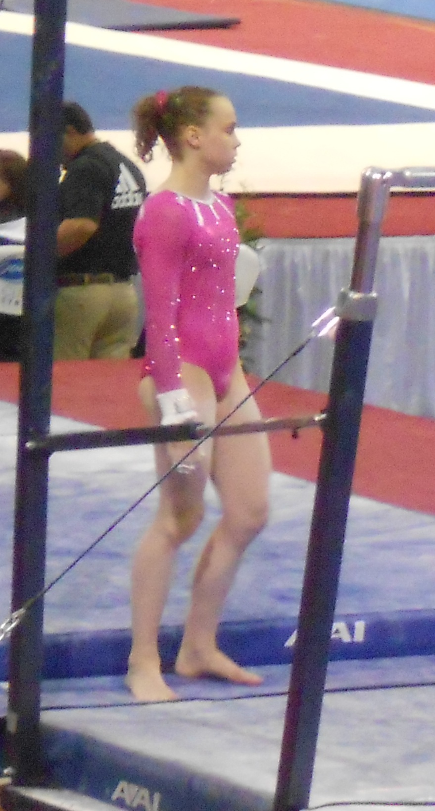 Rebecca Bross bars at 2012 Secret US Classic